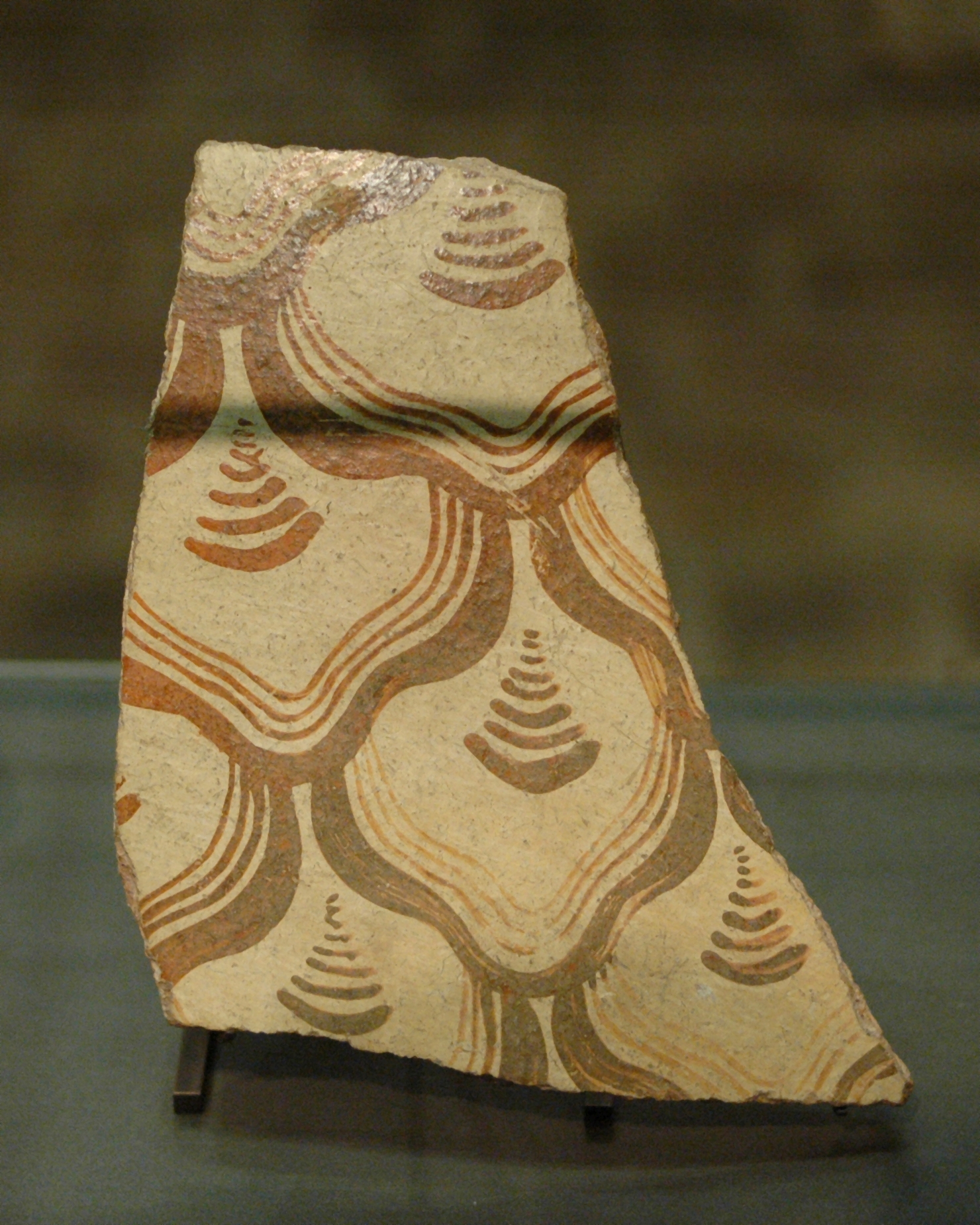 Fragment of a pithos (large storing jar) with abstract vegetative decoration. Terracotta, Palace Style, Late Minoan II (ca. 1450-1400 BC). From Cnossos.